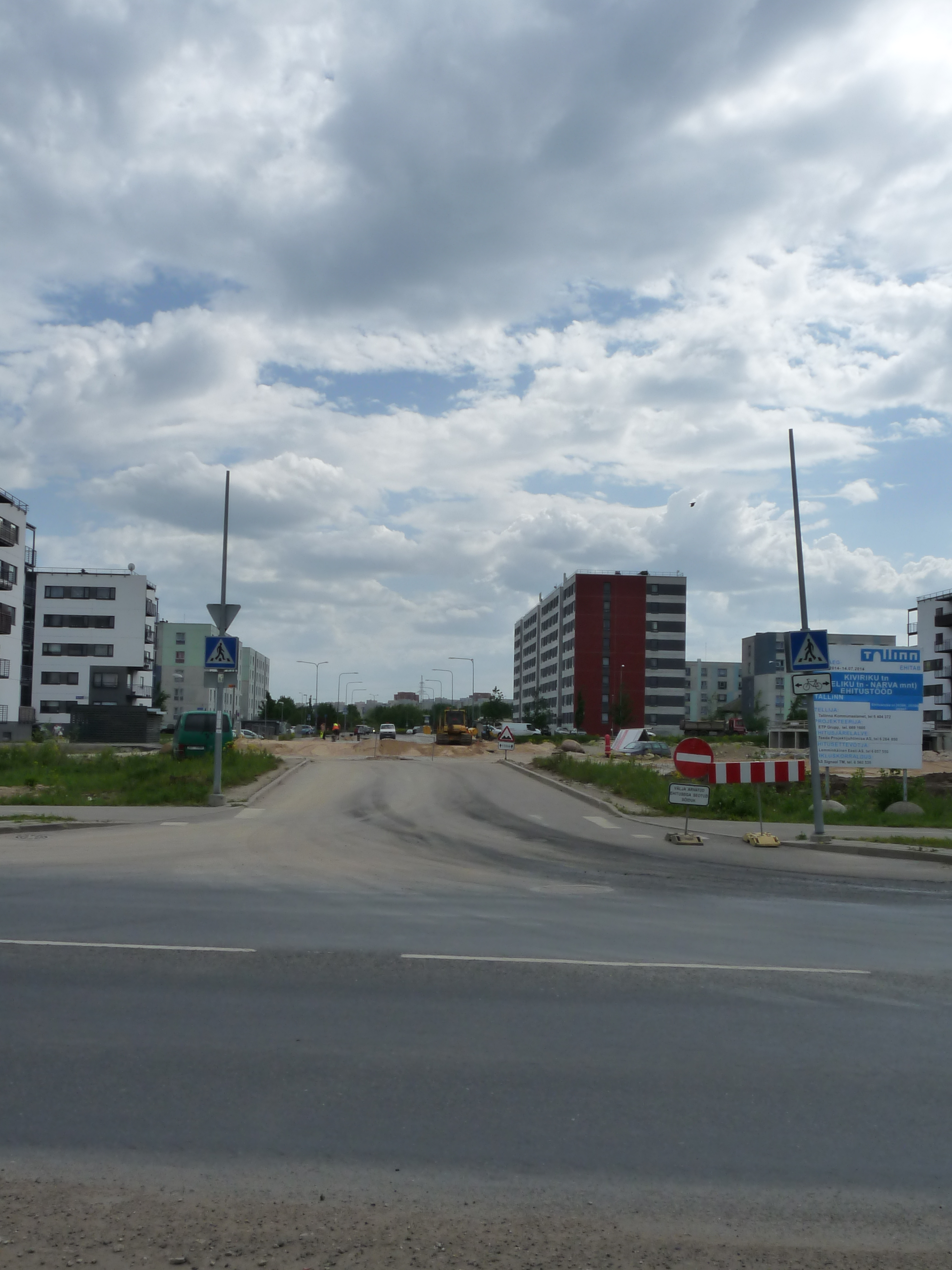 Kiviriku street in Tallinn, Estonia